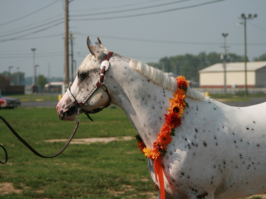 Yearling appaloosa groomed for a show